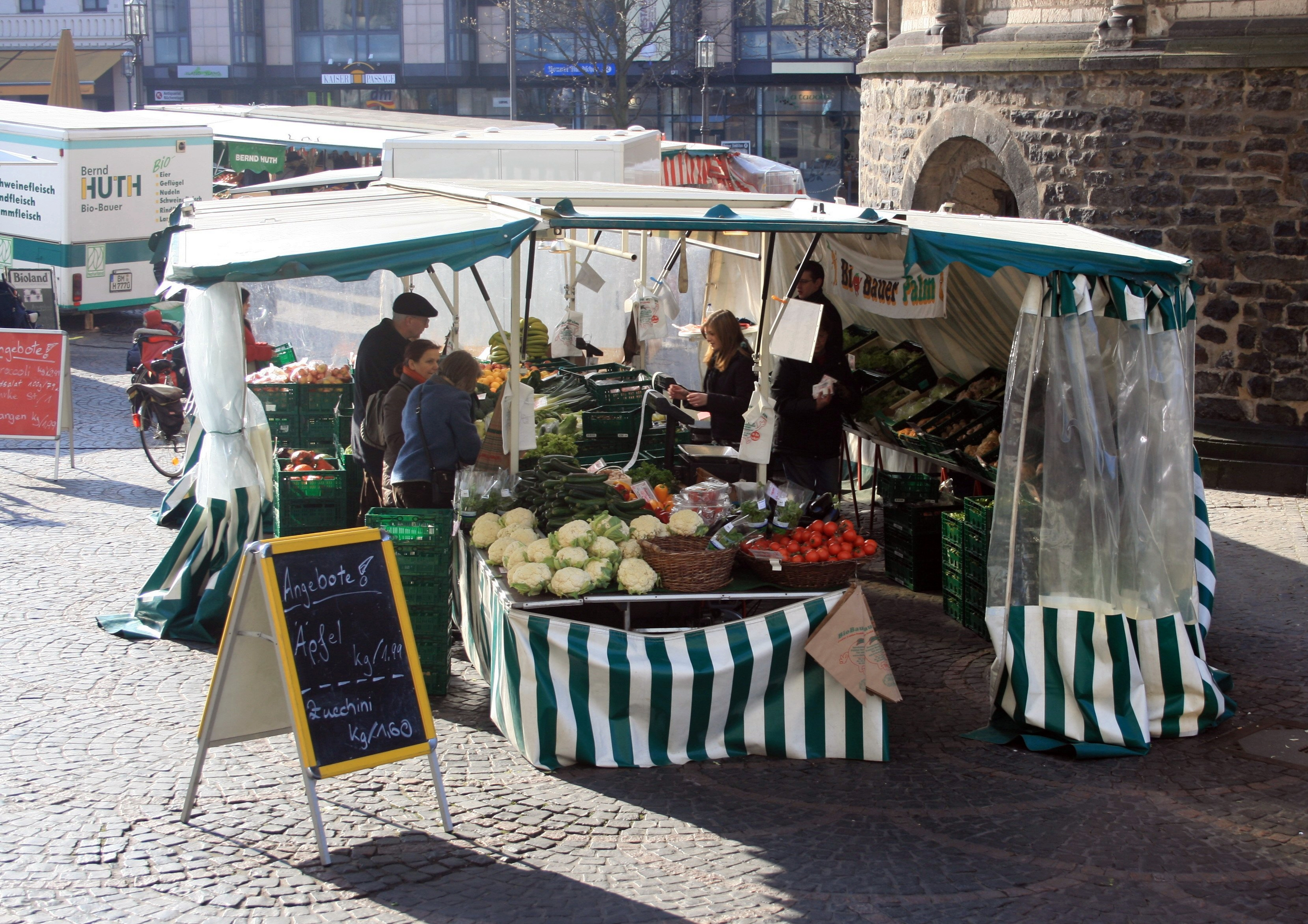 Bonn, North rhine westphalia, germany: fruits and vegetables at the Bonn organic market nearby the Bonn Minster.